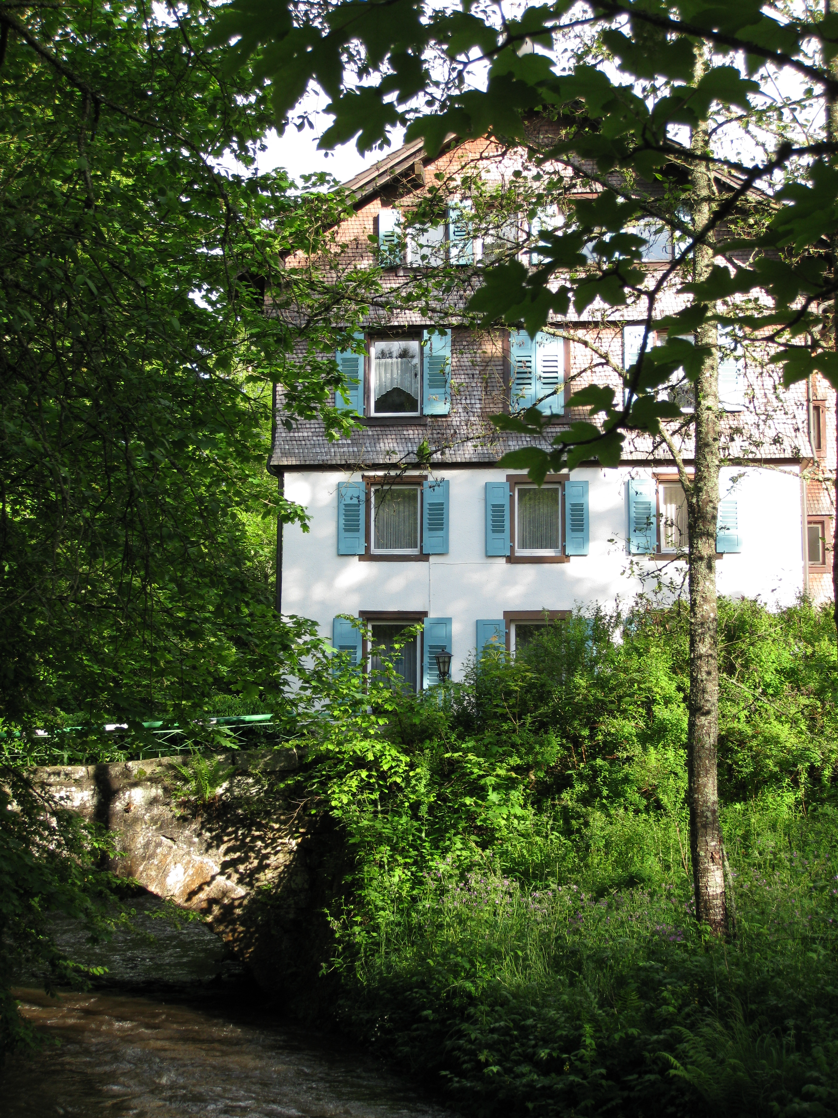 Das ehemalige Kurbad Steinabad an der Steina